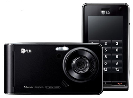 The LG Viewty, front and back view